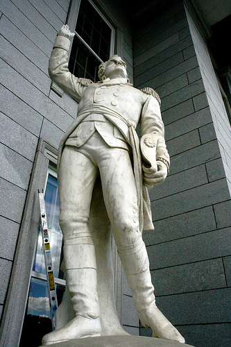 Sculpture of Ethan Allen carved by Aristide Piccini in 1941, to replace the original marble version carved by Larkin Goldsmith Mead in 1858. Located at the Vermont State House. Photo by Holley St. Germain used with permission. under Share Alike license.